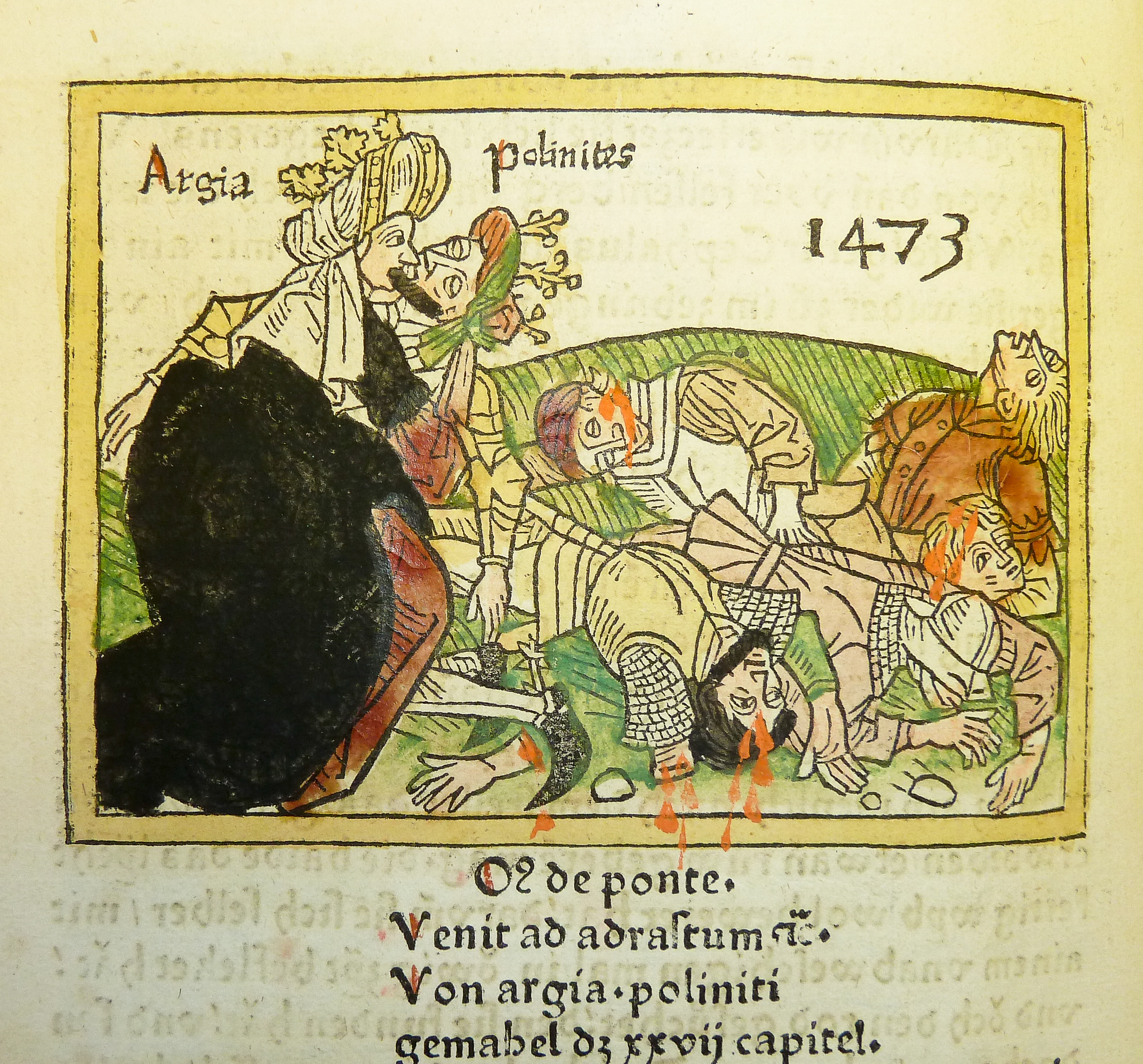 Woodcut illustration (leaf [b]8r, f. [viii]) of Argia and Polyneices, dated 1473, hand-colored in red, green, yellow and black, from an incunable German translation by Heinrich Steinhöwel of Giovanni Boccaccio's De mulieribus claris, printed by Johannes Zainer at Ulm ca. 1474 (cf. ISTC ib00720000). One of 76 woodcut illustrations, each 80 x 110 mm., depicting scenes from the life of the women chronicled (for a full list of subjects, cf. W.L. Schreiber, Handbuch der Holz- und Metallschnitte des XV. Jahrhunderts (Nendeln: Kraus Reprints, 1969), no. 3506). "Pour la première moitie le nom se trouve inscrit à côte de la tête de chaque femme, pour le reste il es ajouté entre les deux réglettes. Il n'y en a que trois, qui n'ont qu'un seul trait carré."--Schreiber. Established form: Zainer, Johannes, ‡d d. 1541?. Established form: Polyneices (Greek mythology) Penn Libraries call number: Inc B-720 All images from this book Penn Libraries catalog record